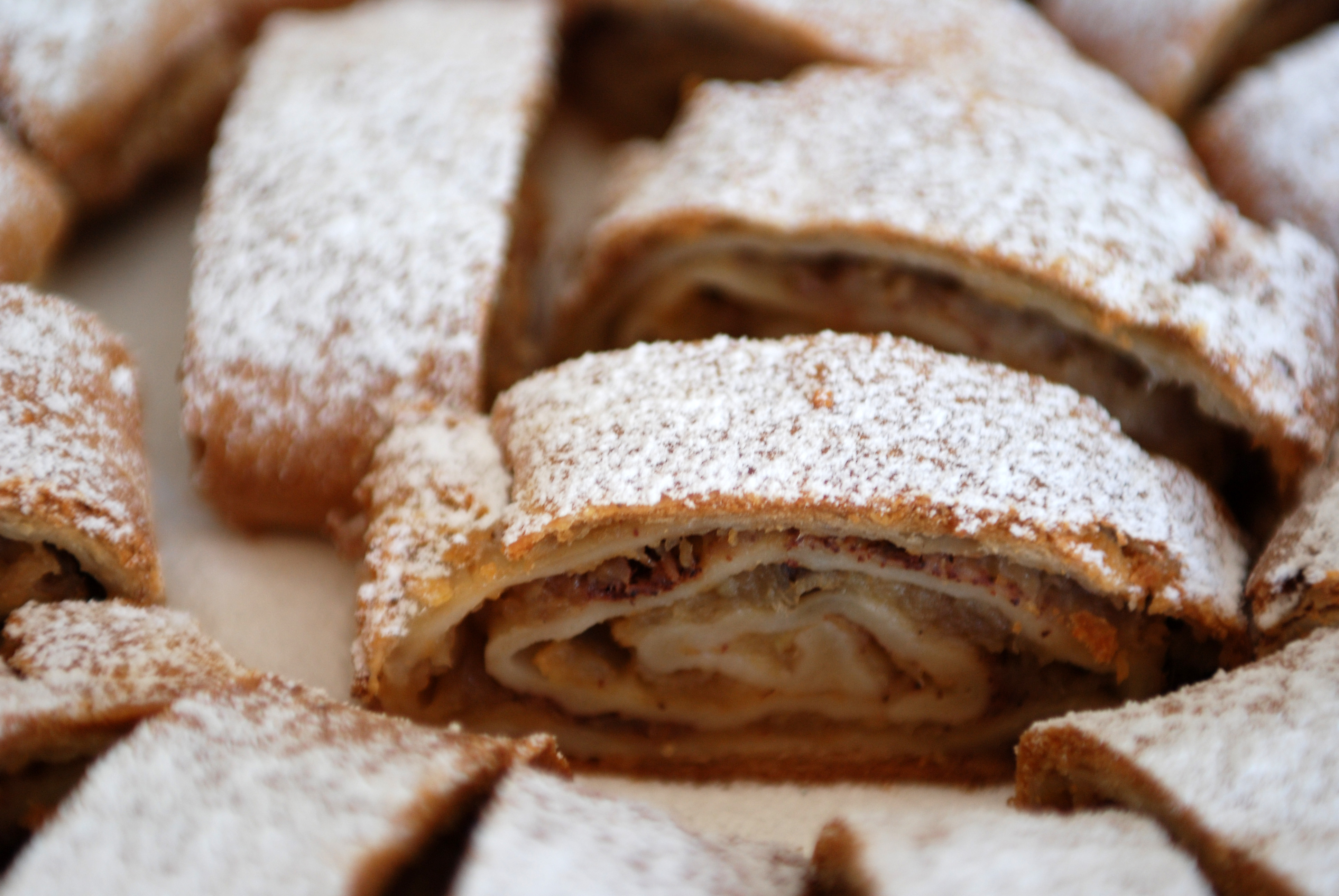 apfelstrudel